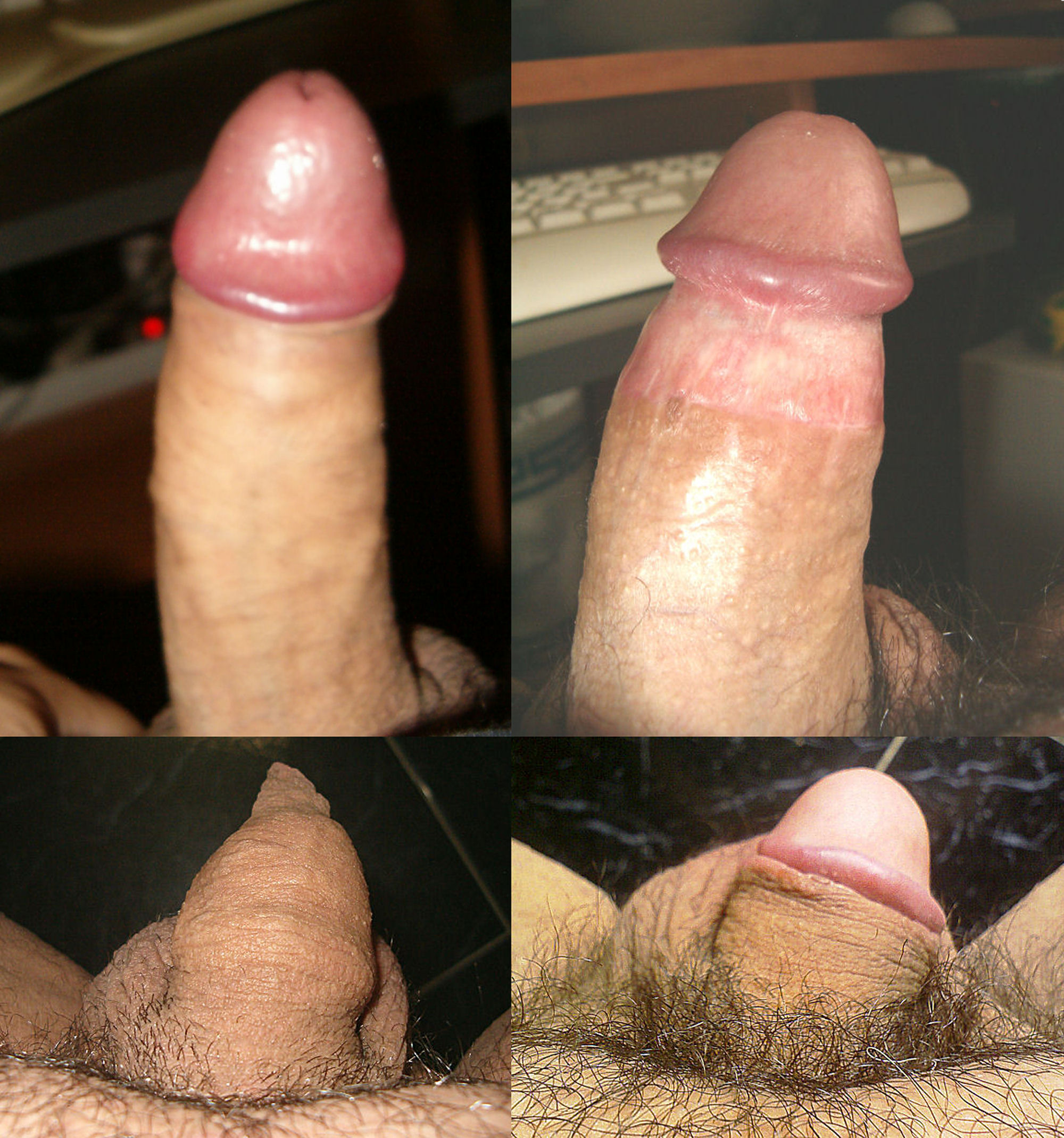 Same penis before and after circumcision